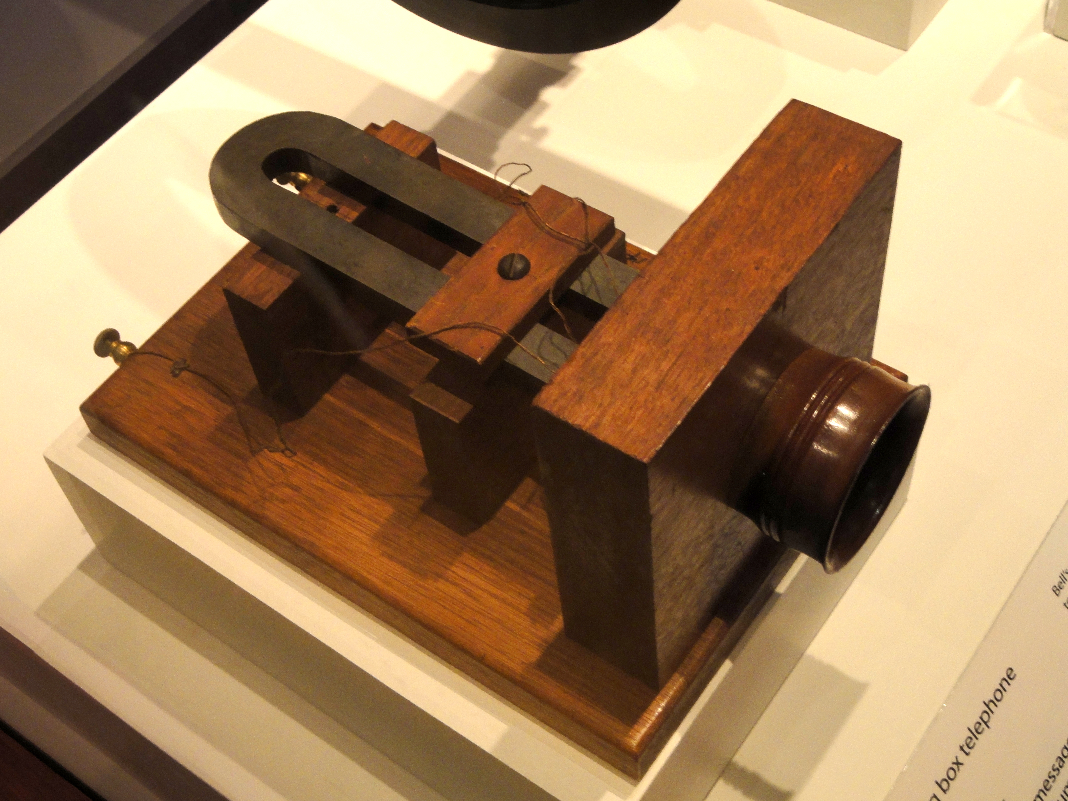 Exhibit in the National Museum of American History, Washington, DC, USA. This item is in the public domain because it is property of the national museum.